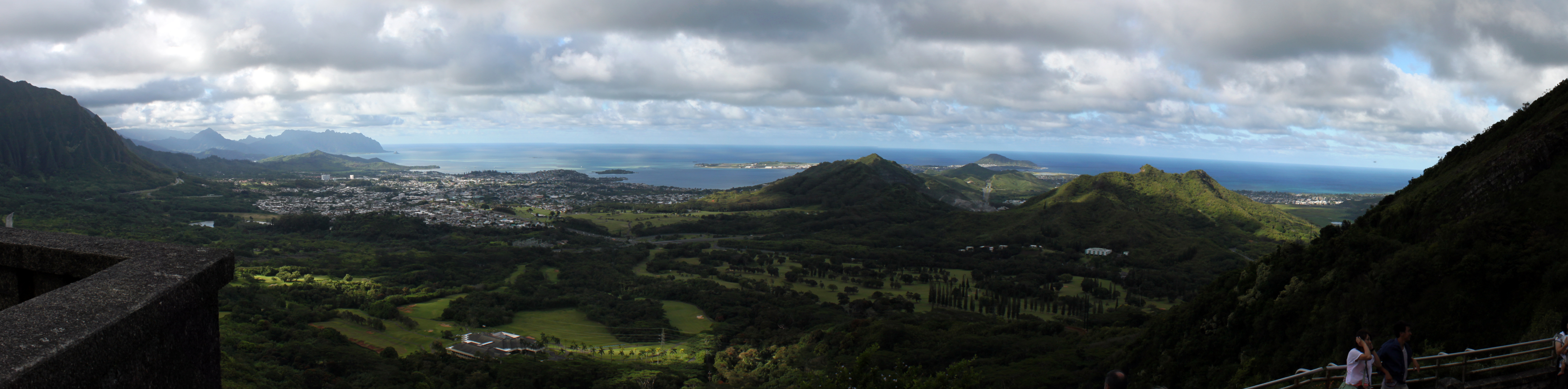 Panoramic view of the Pali Lookout